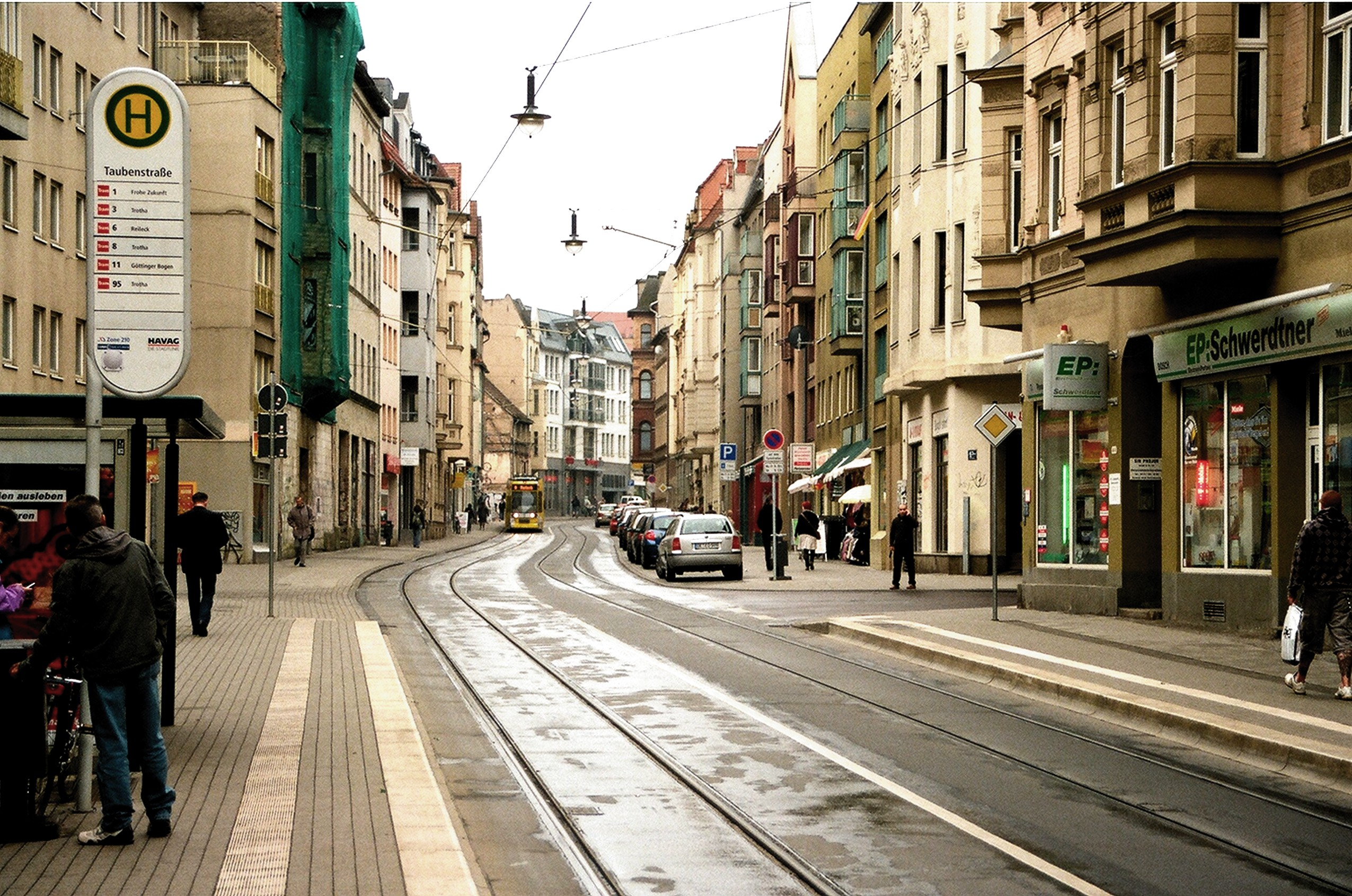 Halle (Saale), the Steinweg